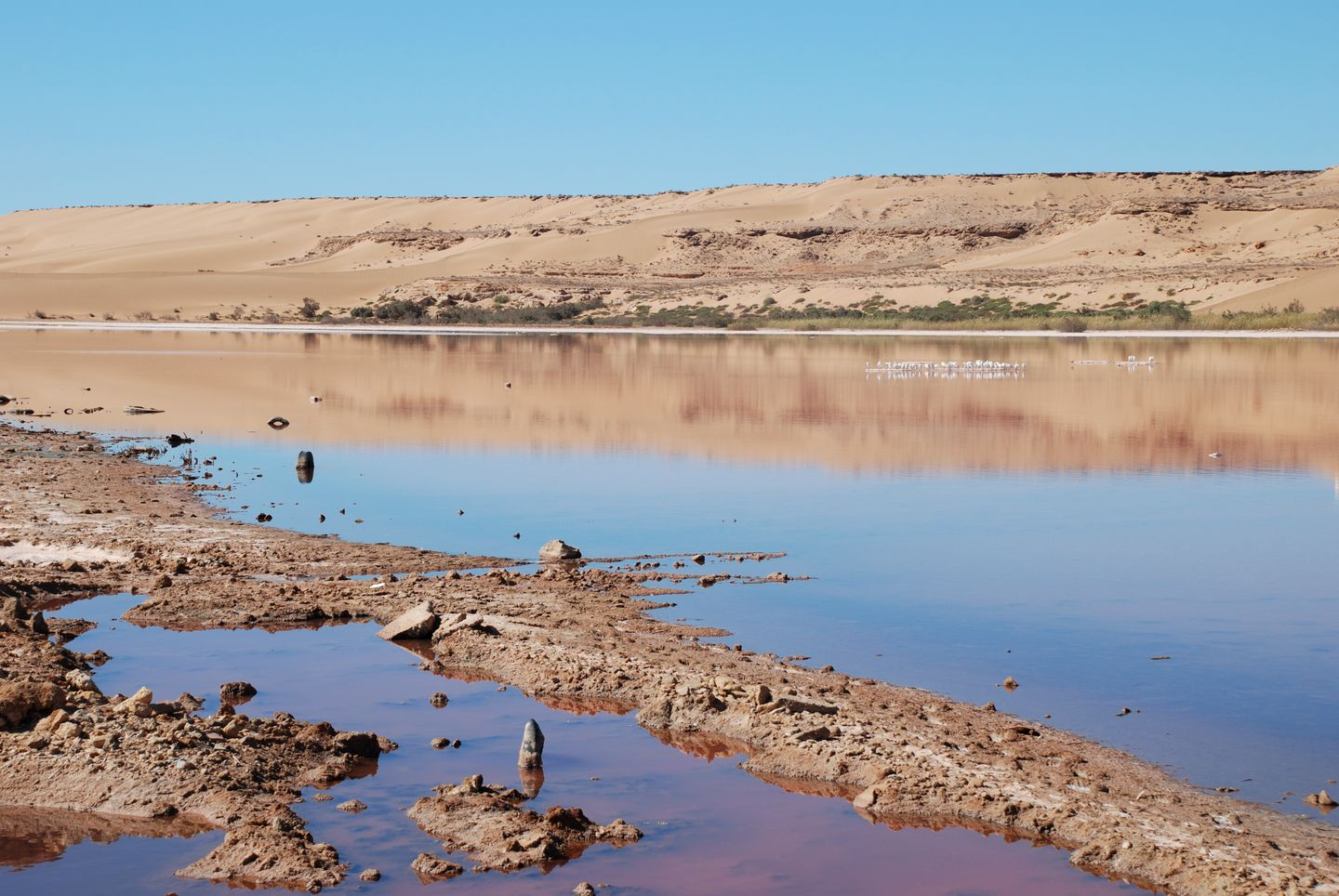 River Saguia el Hamra near El Aaiún—Laayoune, Western Sahara.